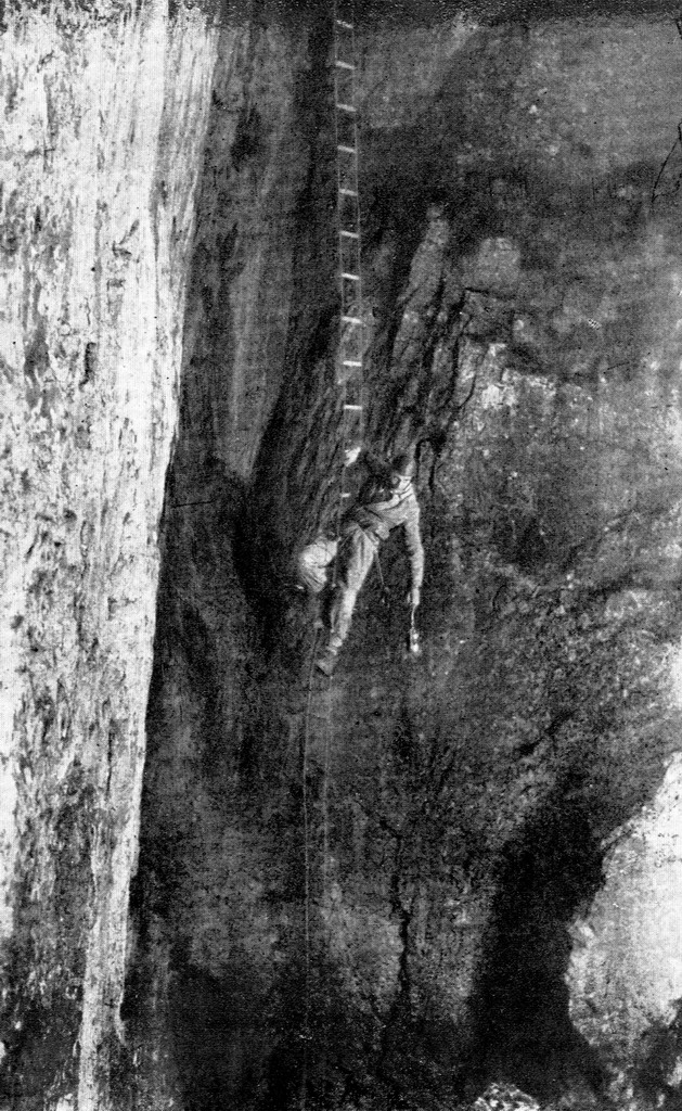 Hubert Kessler's descent into a zsomboly (pothole, shaft-cave) in Alsó Hill